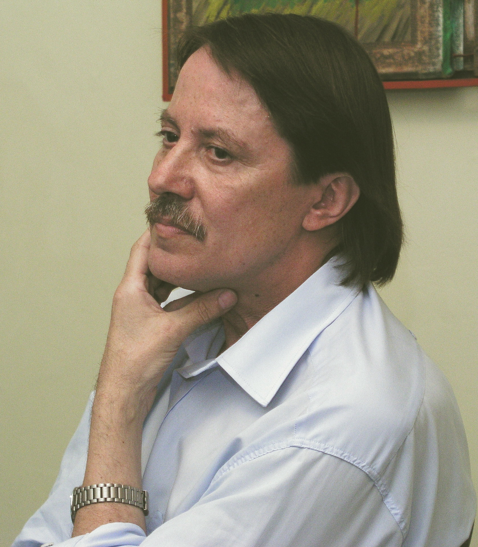 Jan Langos